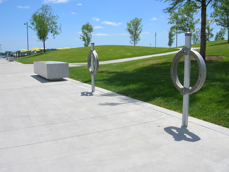 Bike racks at HTO Park in Toronto, Canada.